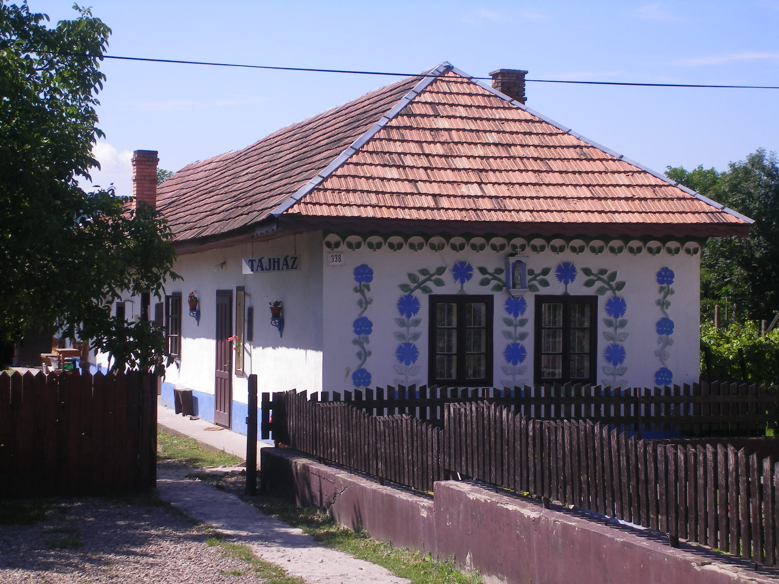 Salka/Ipolyszalka - Village museum